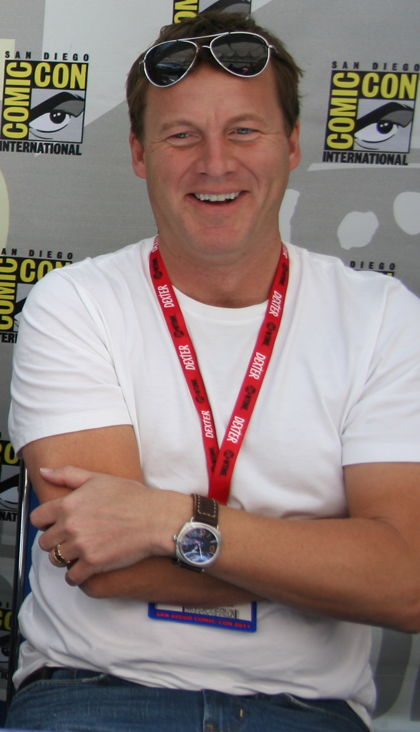 RiffTrax Guys